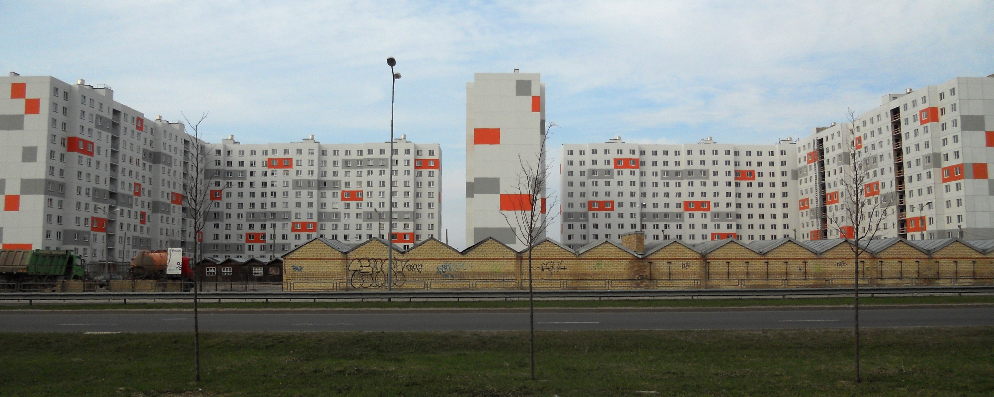 13th Ulbrokas st., Riga, Latvia